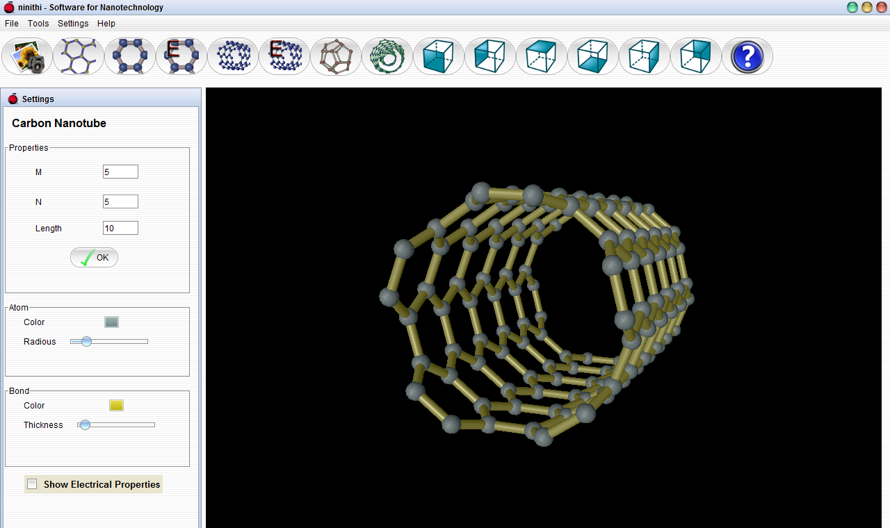 Screenshot of ninithi software with a CNT